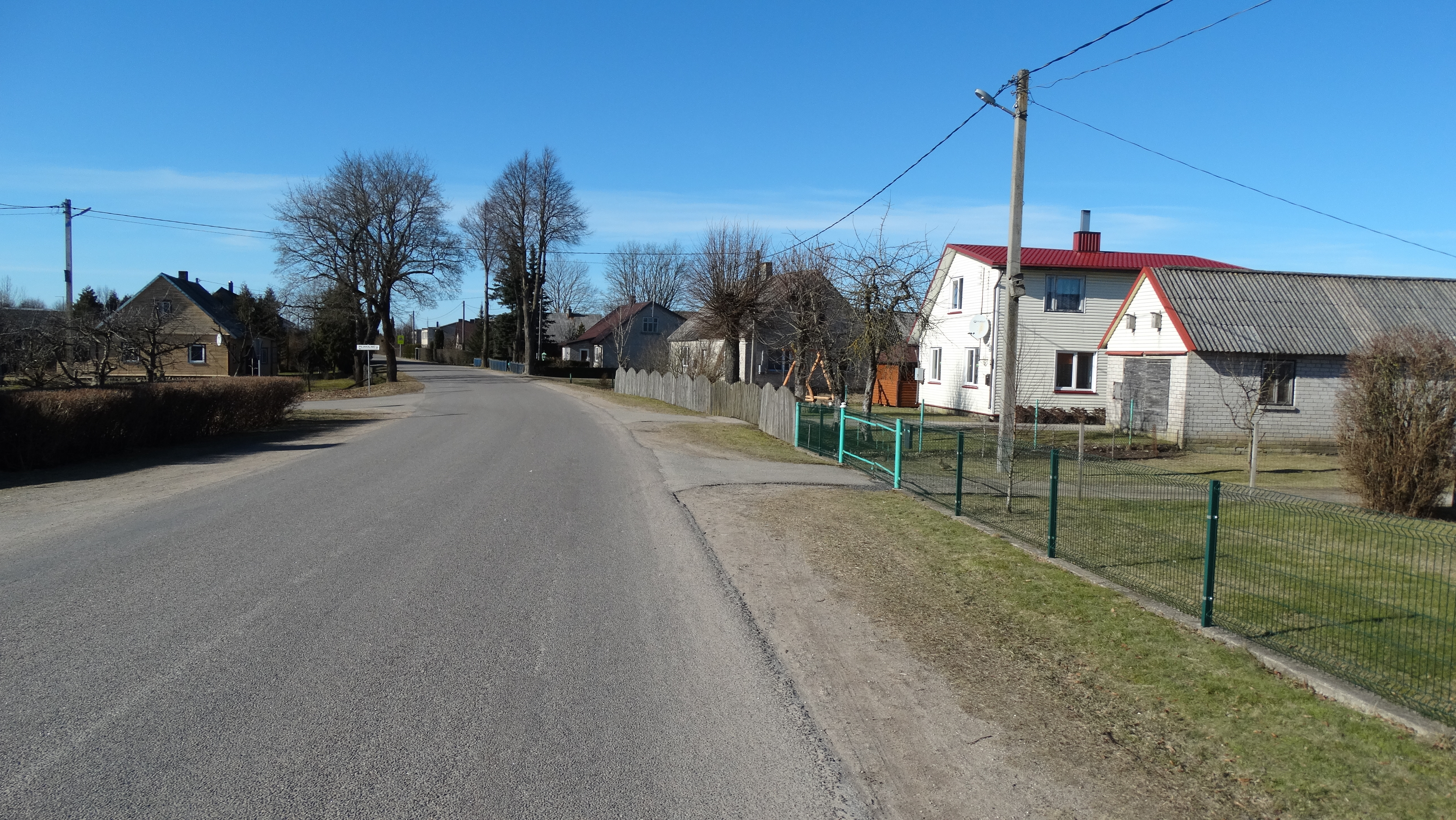 Staneliai, Plungė District, Lithuania